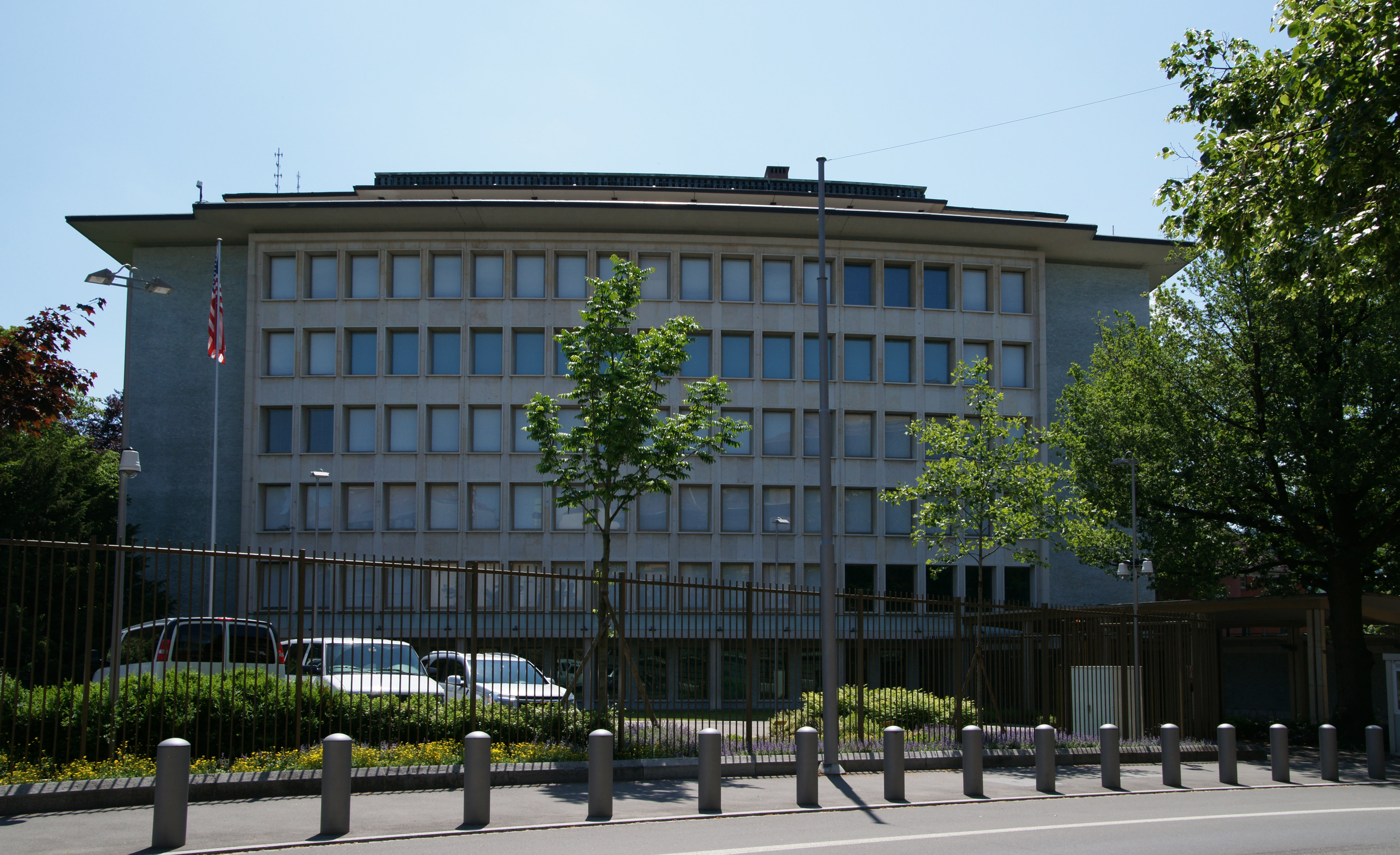 Embassy of the United States on Sulgeneckstrasse 193, Bern, Switzerland.